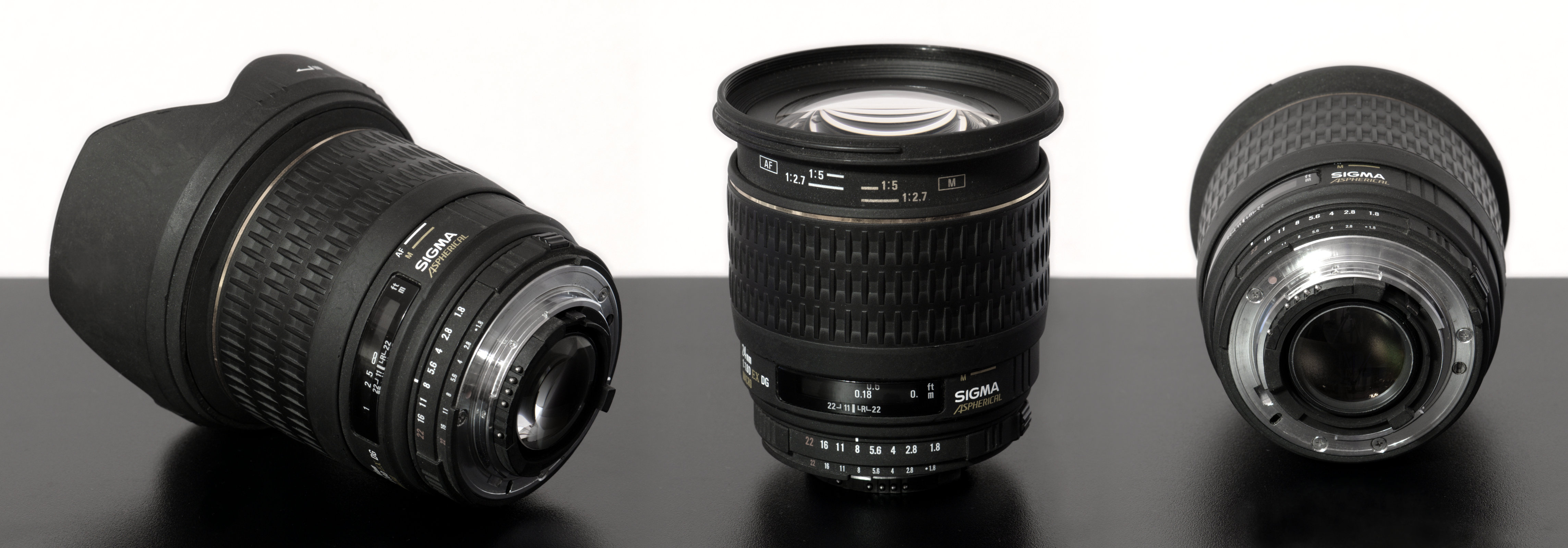 Fixed focal SLR lens Sigma 24mm F1.8 EX DG